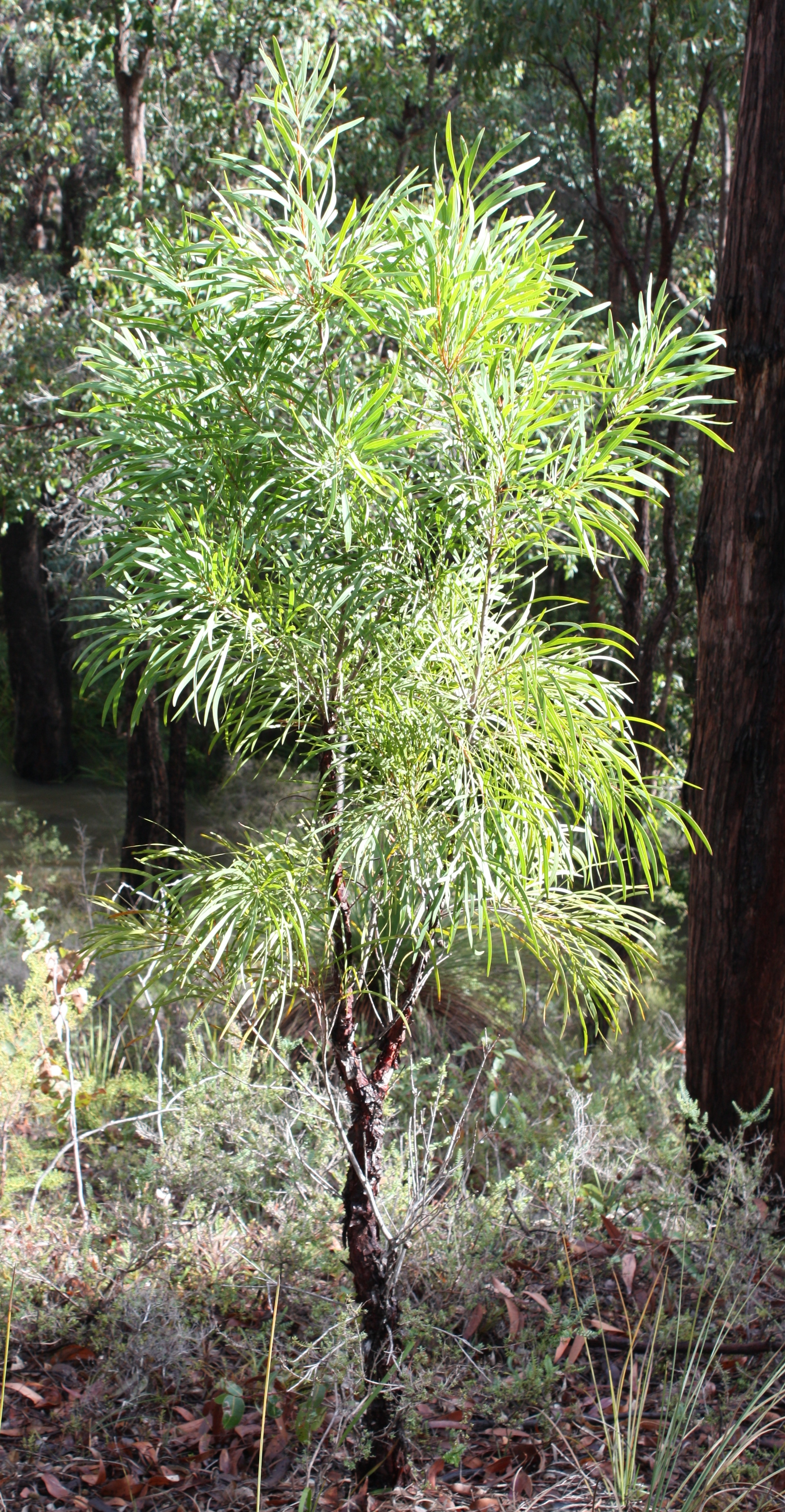 Persoonia longifolia (Upright Snottygobble). Taken near Barrabup Pool on the Blackwood River near Nannup, Western Australia.